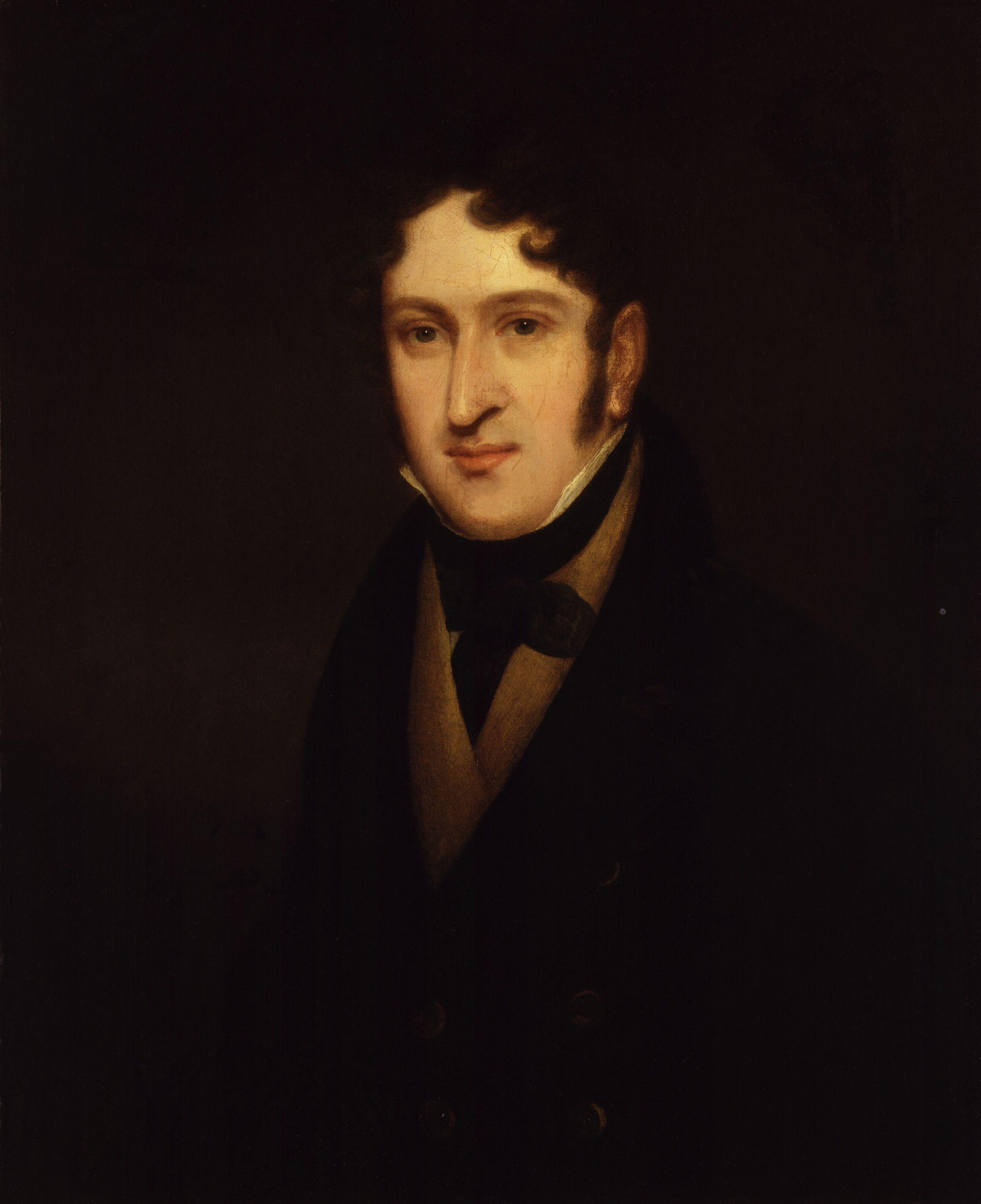 Sir Henry Rowley Bishop, by Isaac Pocock (died 1835), given to the National Portrait Gallery, London in 1869. All images in this batch have been confirmed as author died before 1939 according to the official death date listed by the NPG.